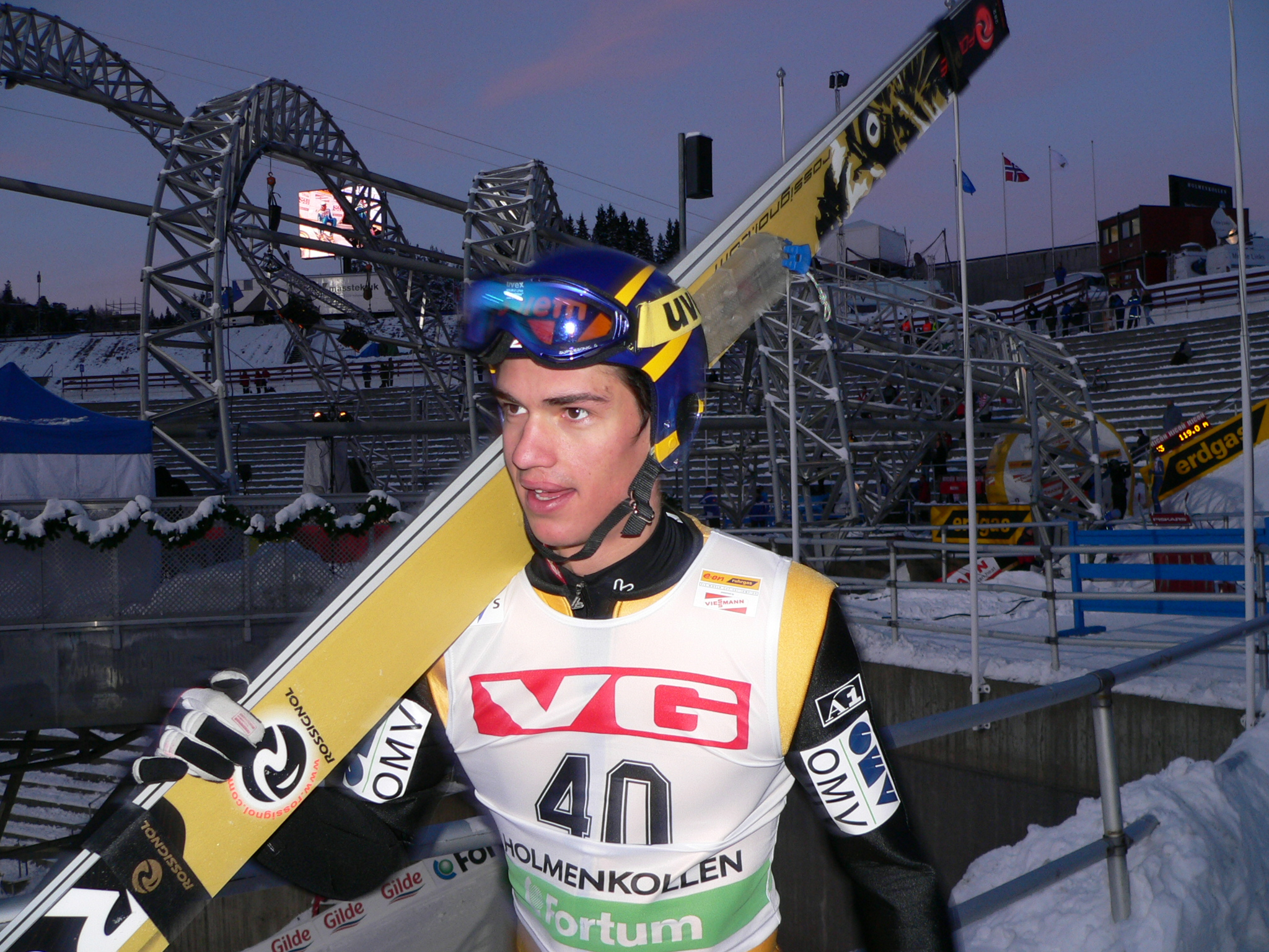 From the 2005 World Cup ski jumping event in Holmenkollen.